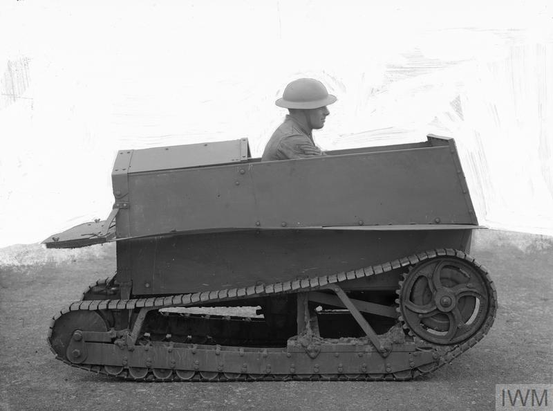 Carden-Loyd One-Man tankette